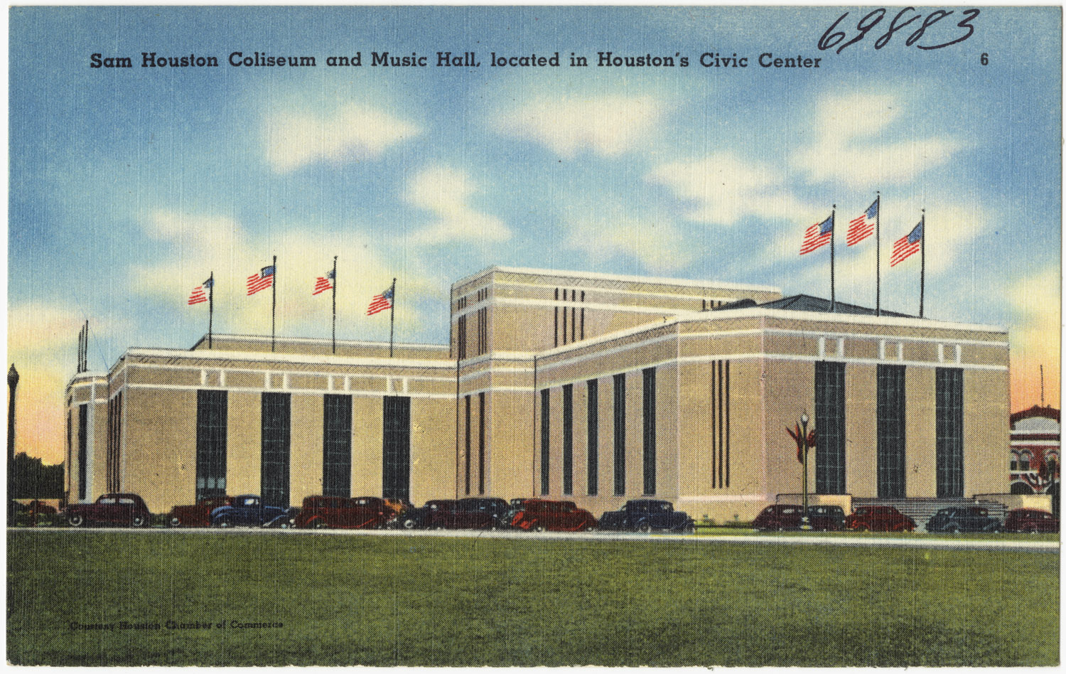 Linen texture, color ; 3 1/2 x 5 1/2 in. postcard of the Sam Houston Coliseum and Music Hall from the the Tichnor Brothers Collection.